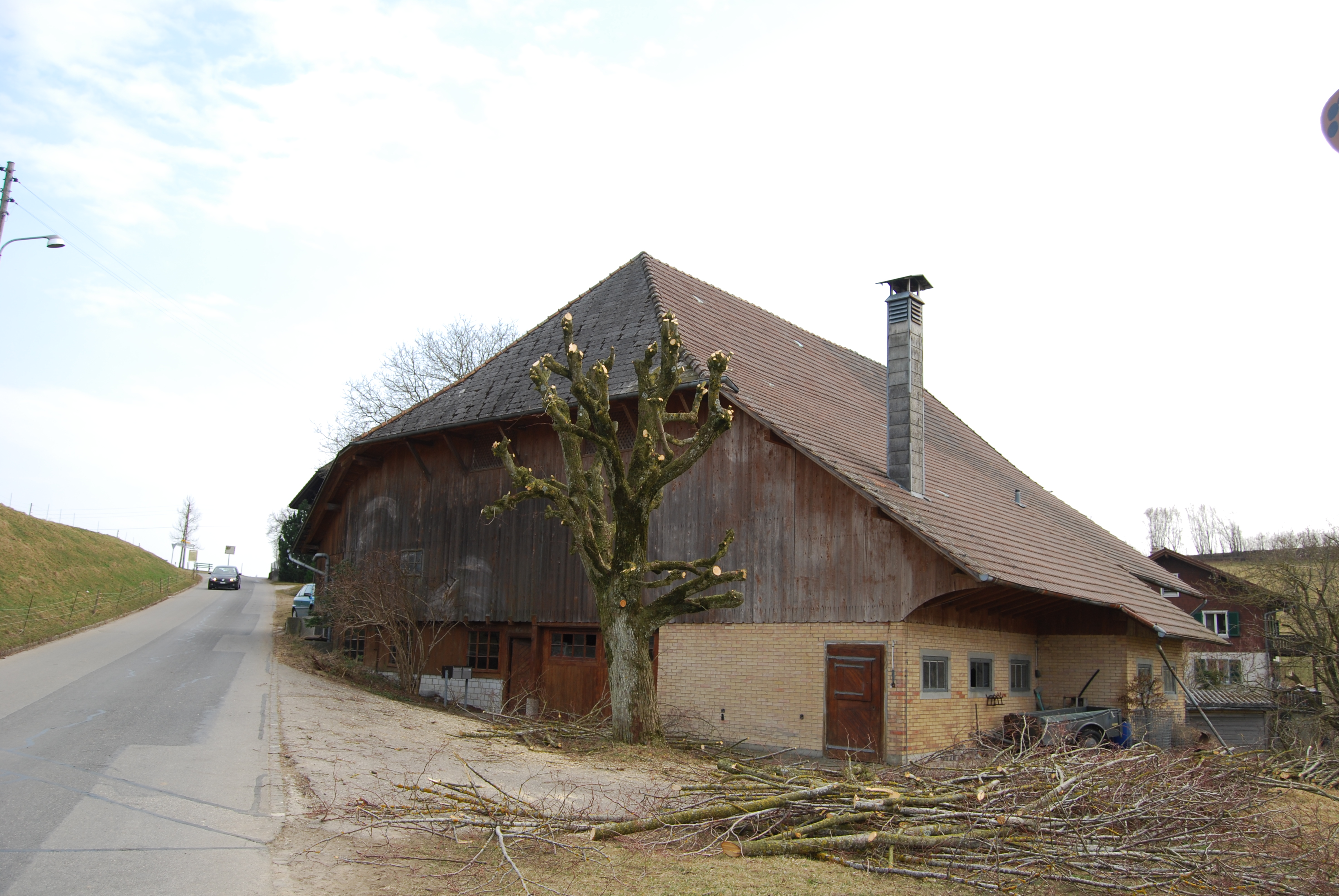 Auswil, canton of Bern, SwitzerlandEsperanto: Auswil, Kantono Berno, Svislando